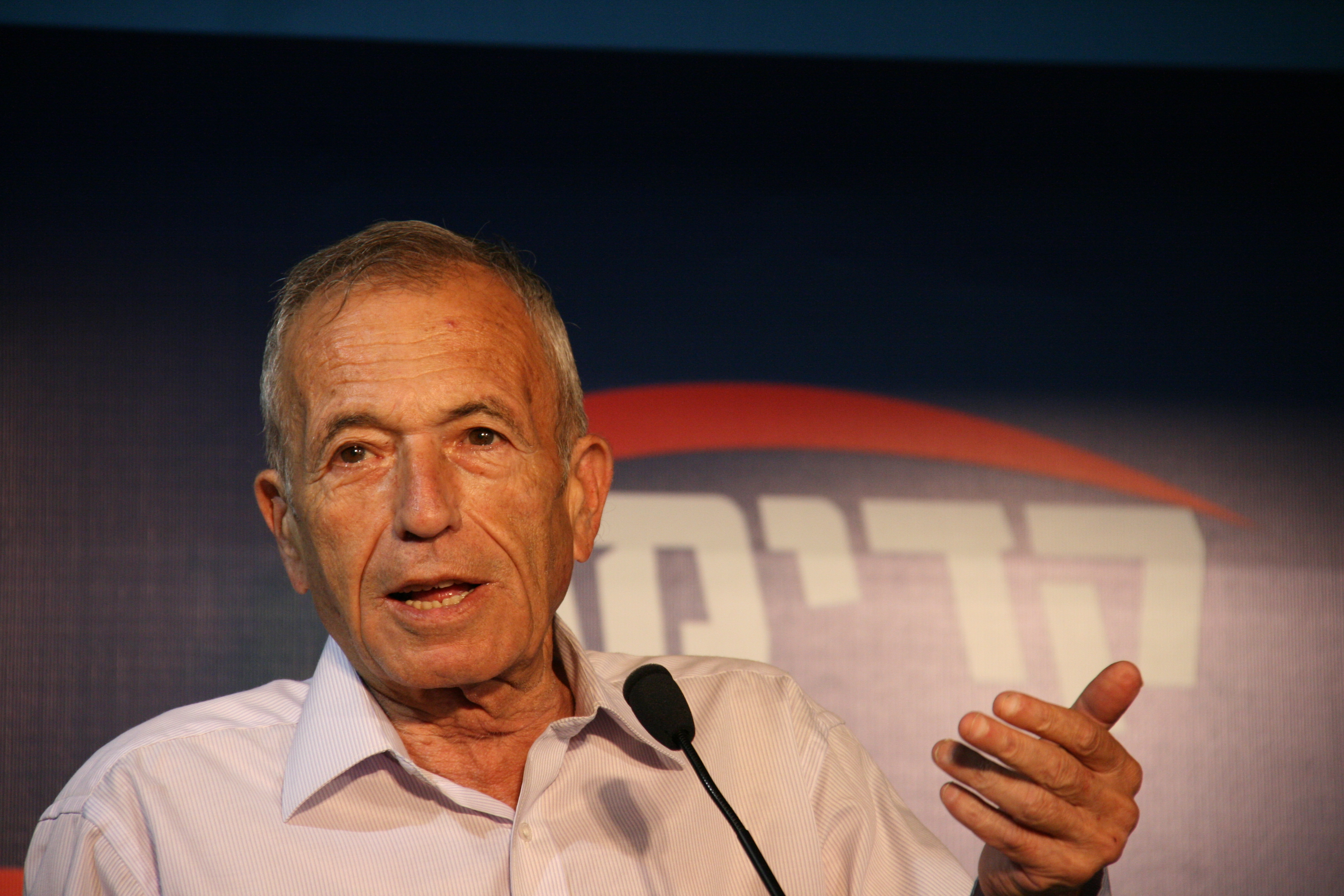 MK Gideon Ezra, Member of Kadima Party (Israel). Photo by: Itzik Edri, Kadima Party PR Team